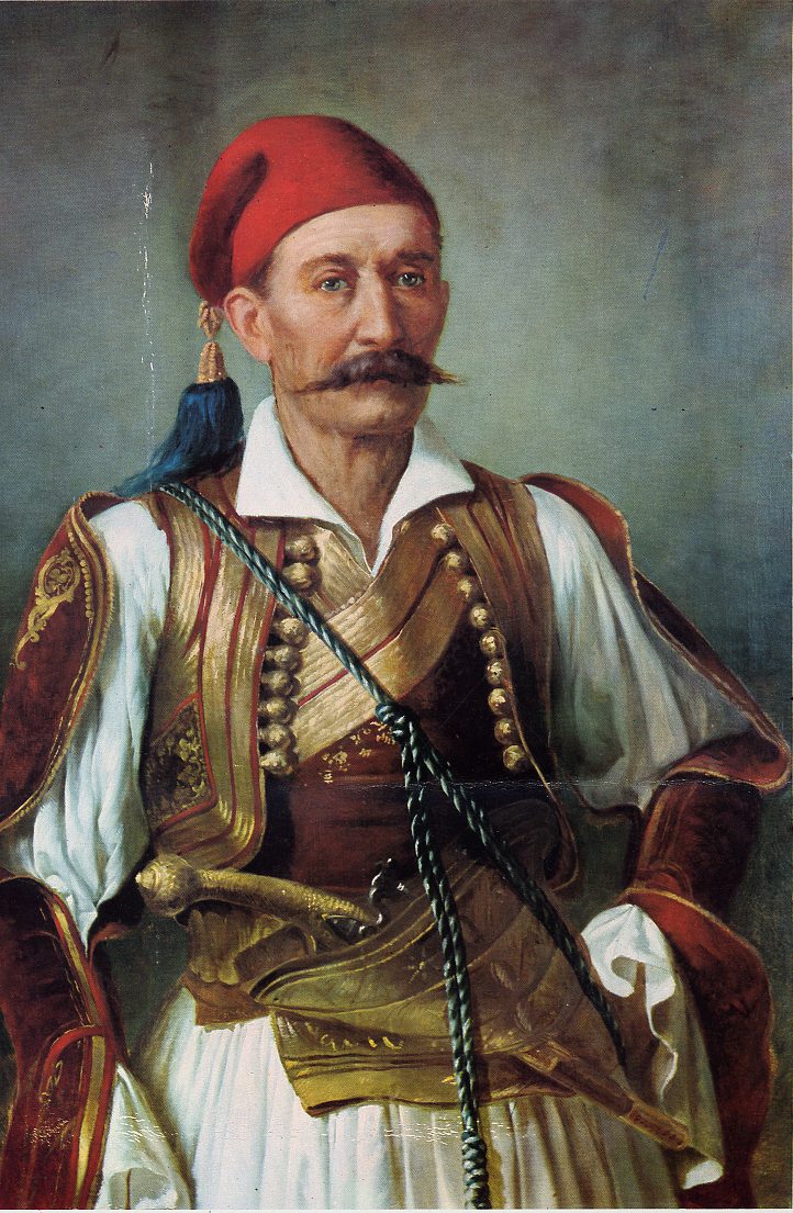 Nikolaos Stournaras. Painting in the National Historical Museum of Athens